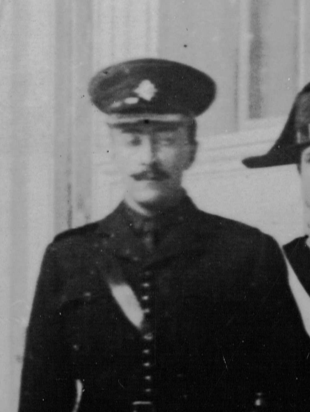 My scan (R. de Salis, Rodolph (talk) 00:14, 11 April 2014 (UTC)) of a larger photo to extract an image of Count John Eugen de Salis when part of a party of 13/14 together for the Reception of his father as British Representative at the Vatican, c.1916-1922. Heavily cropped head & shoulders shot of the young Irish Guards officer. Other information this is a heavy cropping of a 6.5 x 8.5 inch press photo. thumb|100px